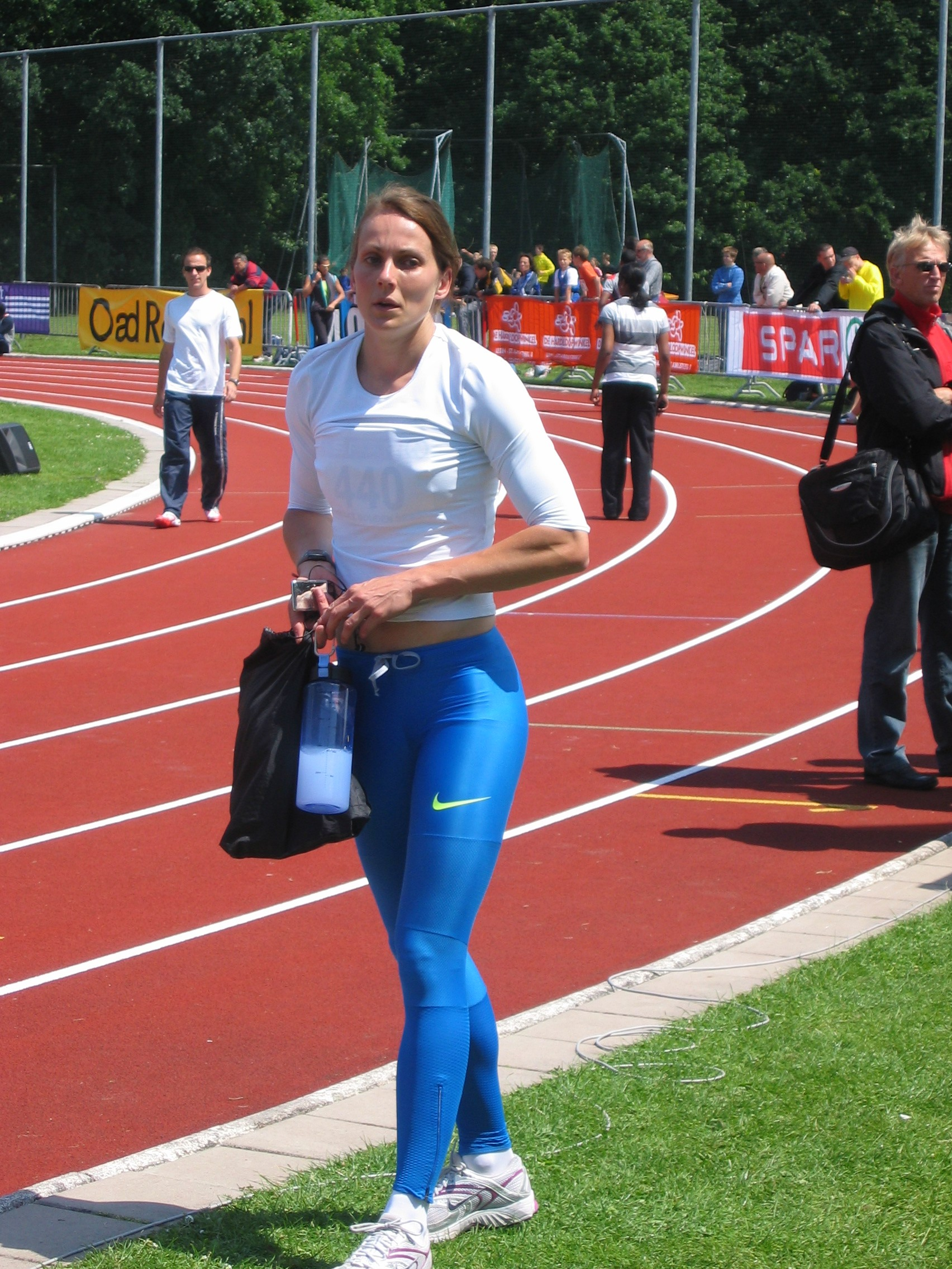 Kelly Sotherton at the Gouden Spike Meeting '08 in Leiden, The Netherlands